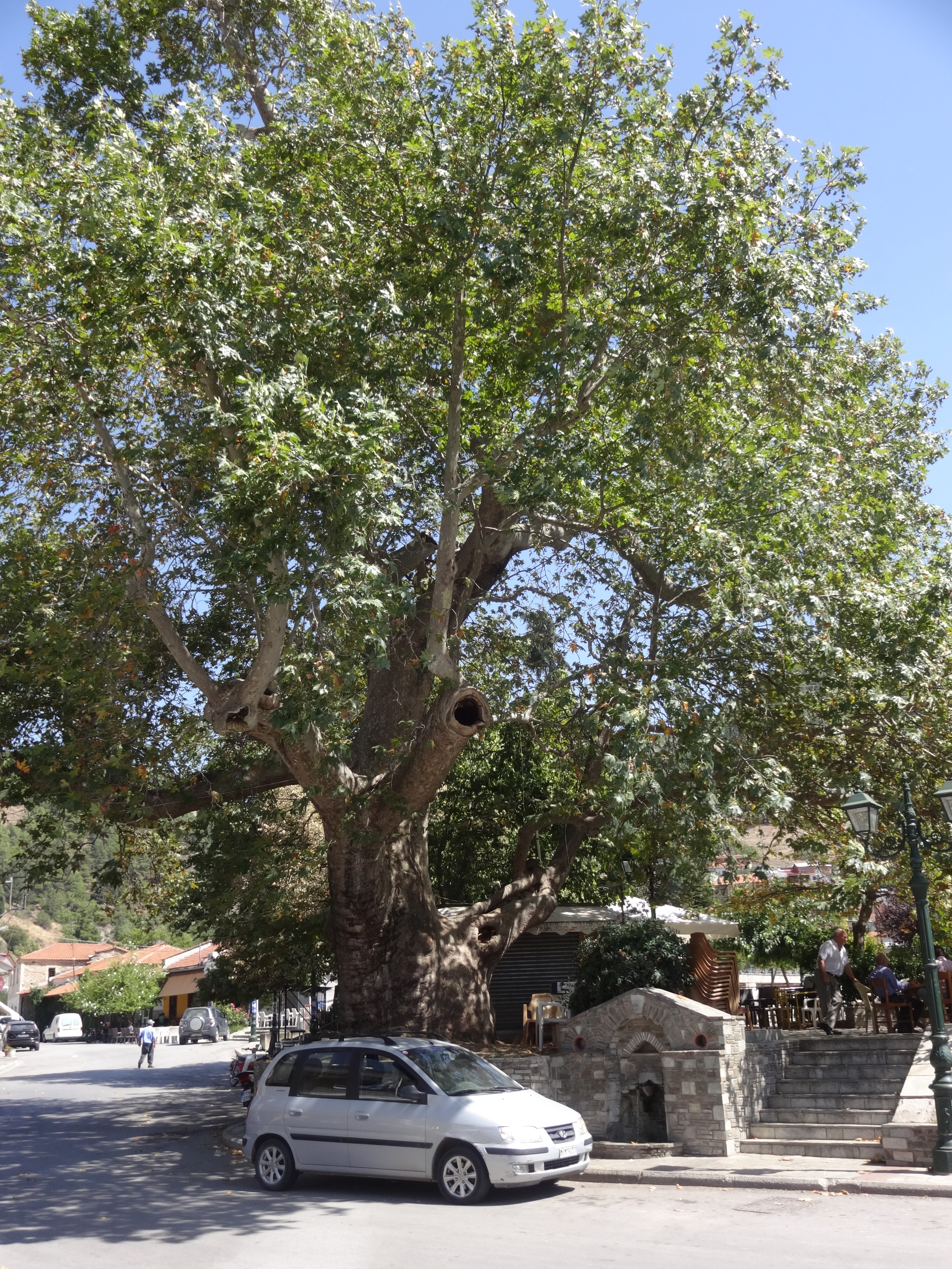 Tsaritsani, Greece. The old platan tree.